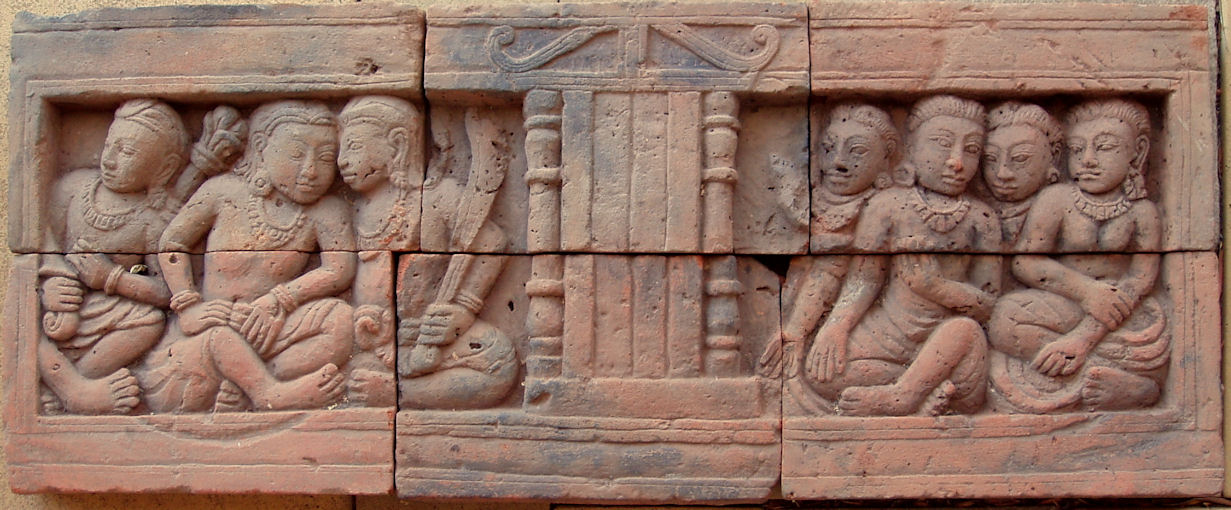 TC 002 Majapahit Terracotta Set of 6 low relief tiles. Collection of Balique Arts of Indonesia. There are two groups of courtiers sitting either side of a gate. On the left are 3 men, two having a conversation and one appears to be looking out for an approaching event. On the right sit 4 women. Once again they are talking to each other and looking towards the left. 87 cm x 36 cm x 5.5 cm